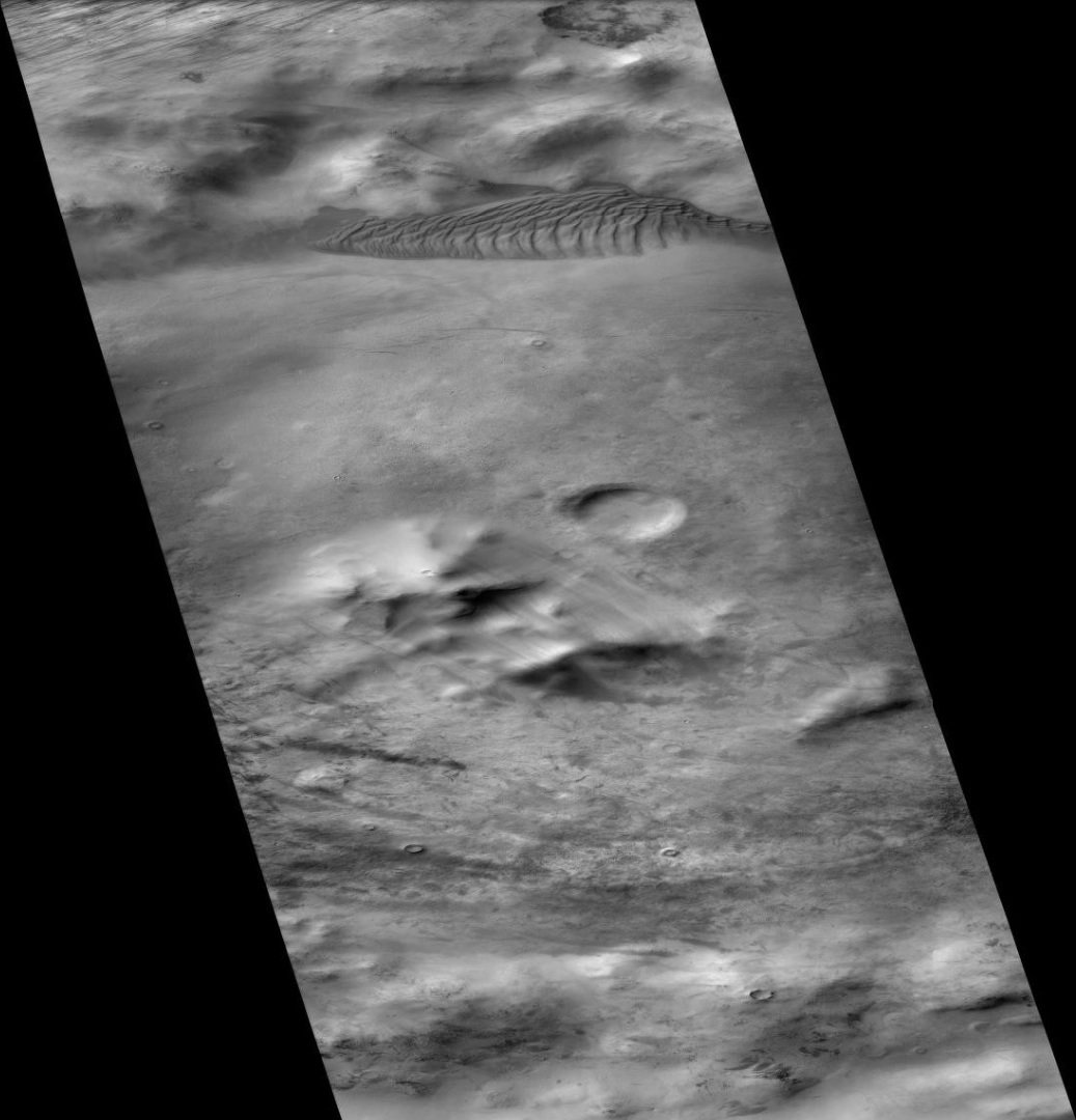 Von Karmann Crater, as seen by ctx